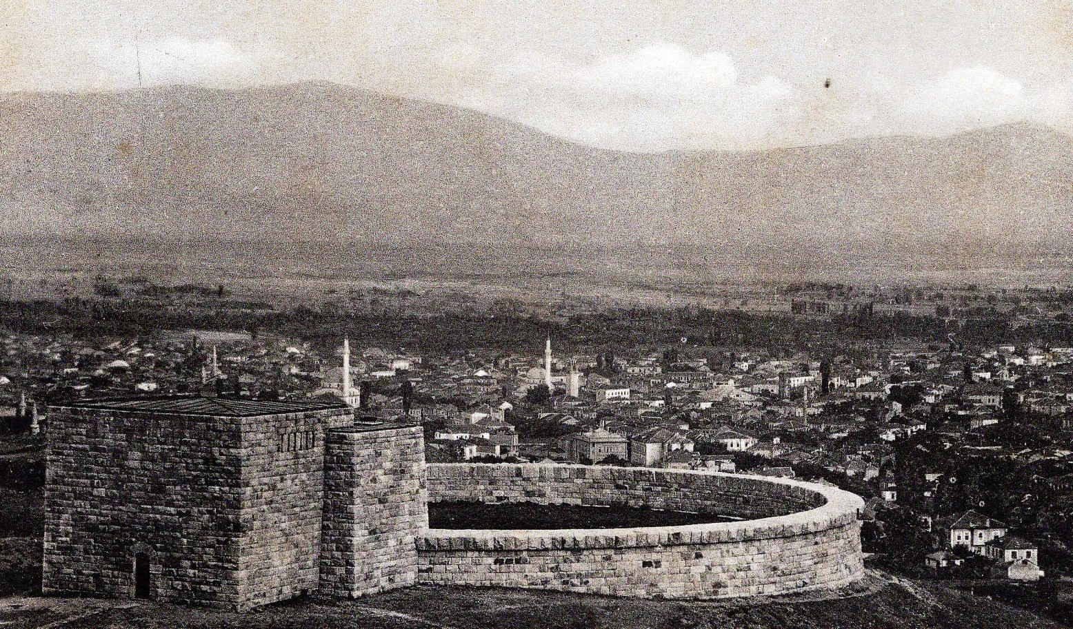 Postcard of Bitola, German cemetery, 1931 This media file is produced by Wikipedian in Residence in Category:Wikipedian in Residence at DARM in 2016.